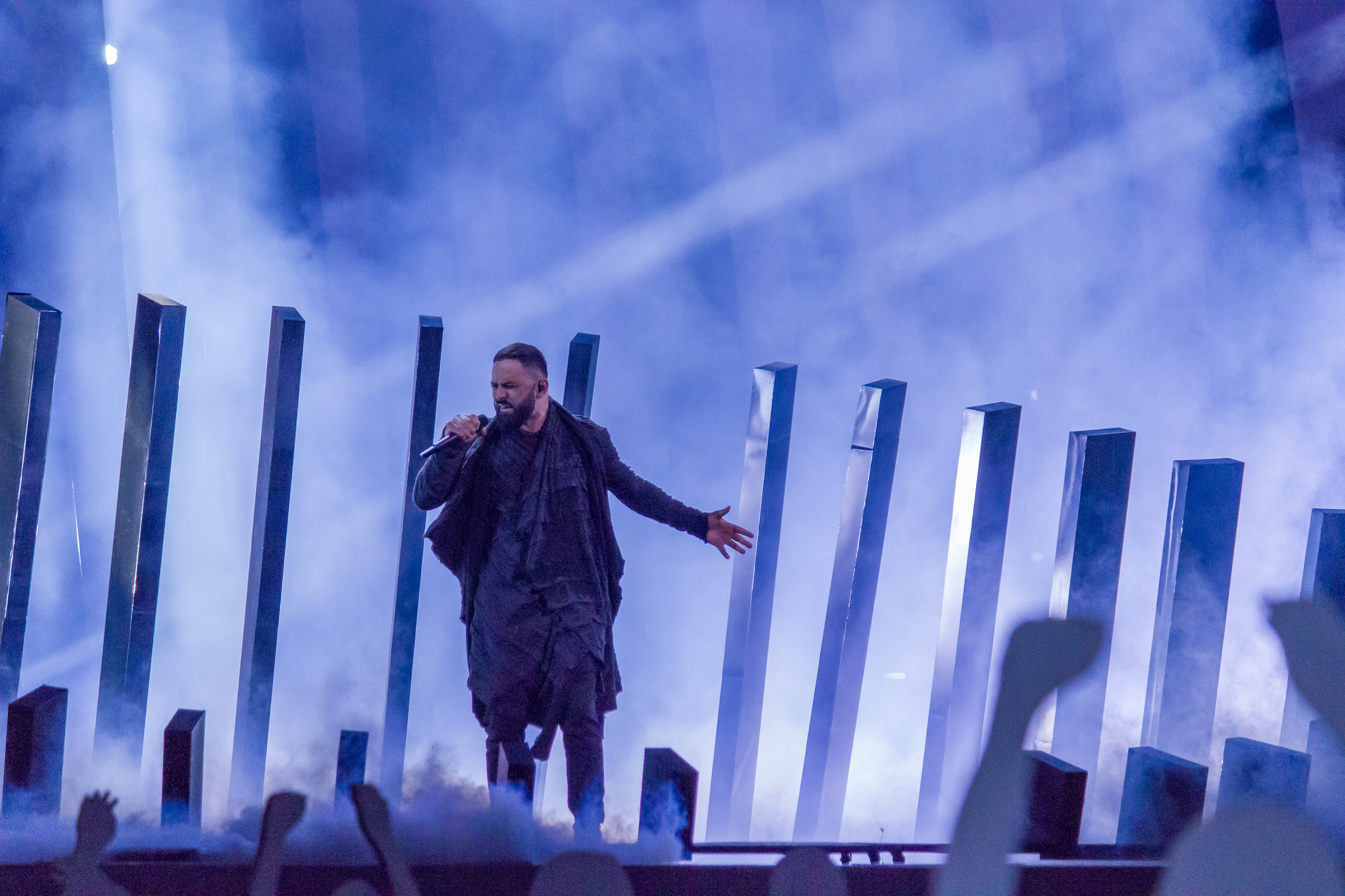 Sevak Khanagyan representing Armenia with the song "Qami" during a rehearsal before the first semi final of the Eurovision Song Contest 2018 in Lisbon.